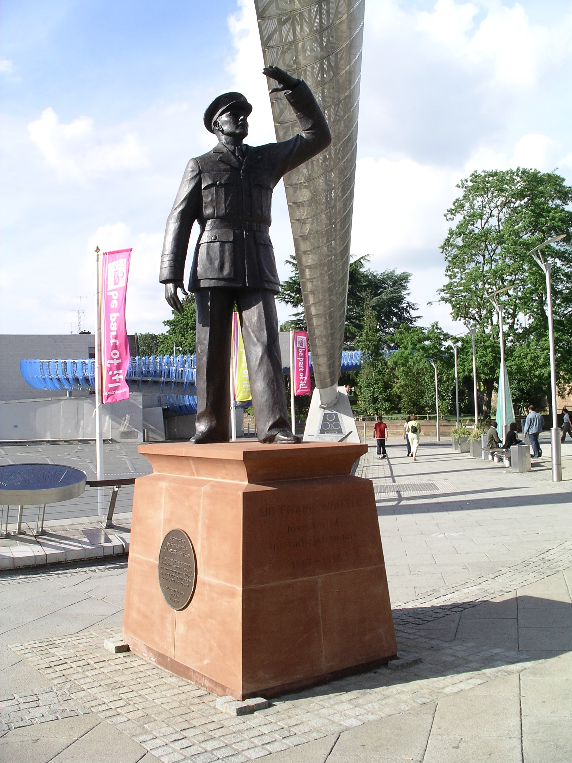 photo of the Frank Whittle statue in Coventry, England. It was unveiled on 1 June 2007.